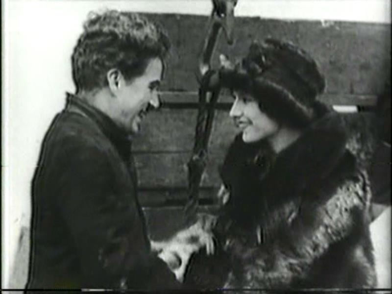 Charlie and Georgia Hale from "The Gold Rush".